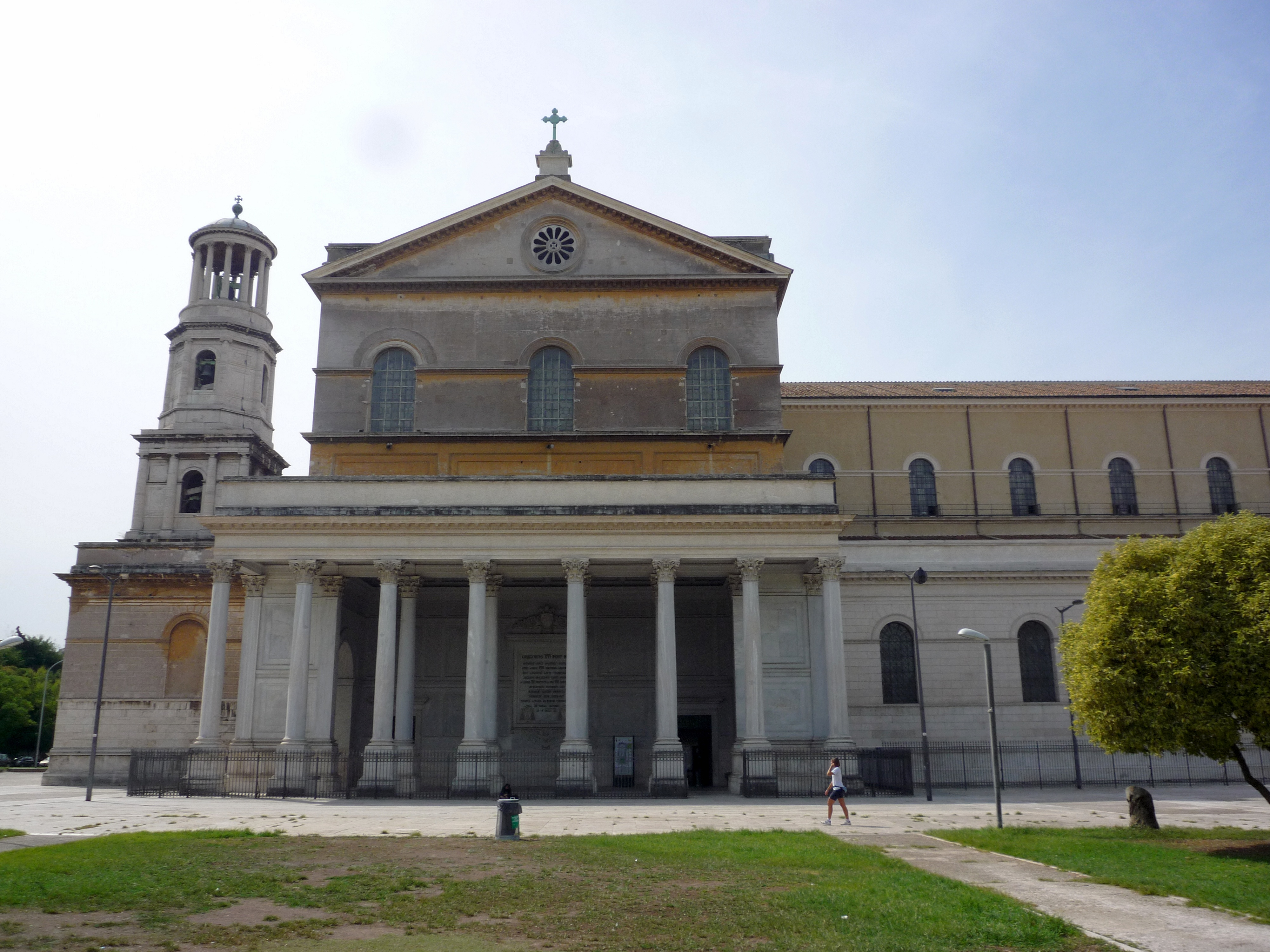 Basilica San Paolo fuori le Mura (Rome) - side view